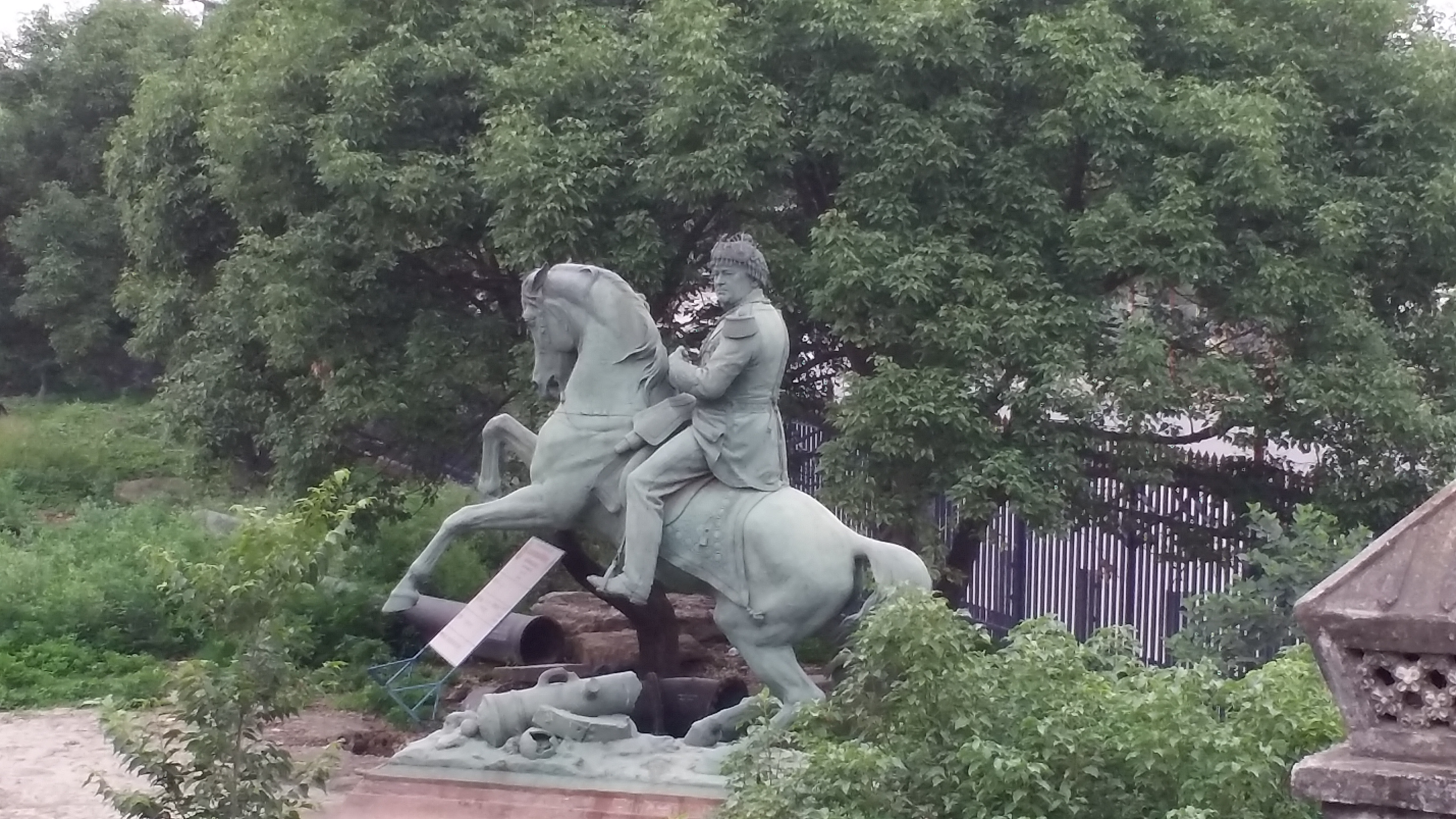 Statue of horse rider at the west south corner of Tundikhel. Tundikhel is a large grass-covered ground in the center of Nepal's capital Kathmandu and one of its most important landmarks.